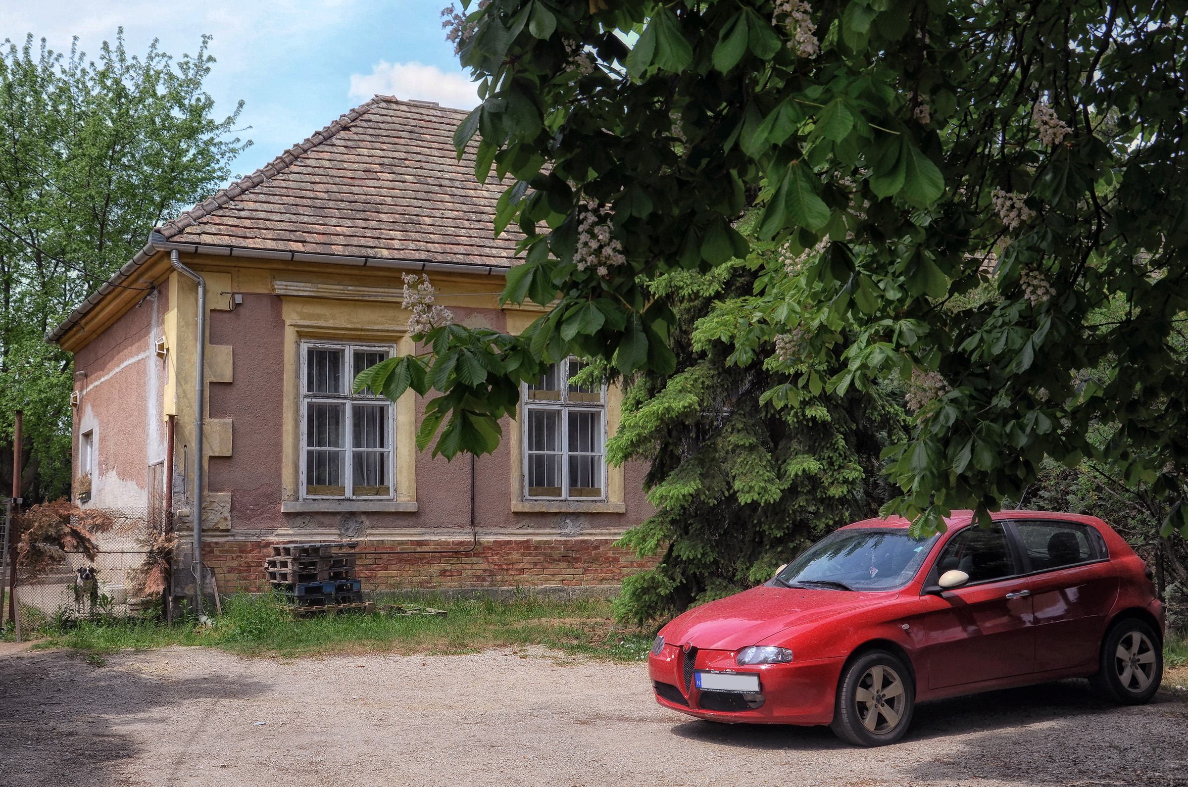 The former office building of the socialist agricultural cooperative in Felcsút, Hungary